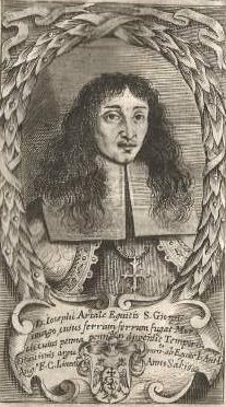 Giuseppe Artale, Sicilian poet. Illustration from Enciclopedia Poetica